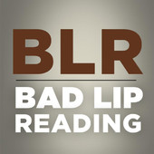 Official logo of Bad Lip Reading channel, from original iTunes cover image for "Gang Fight!" single.